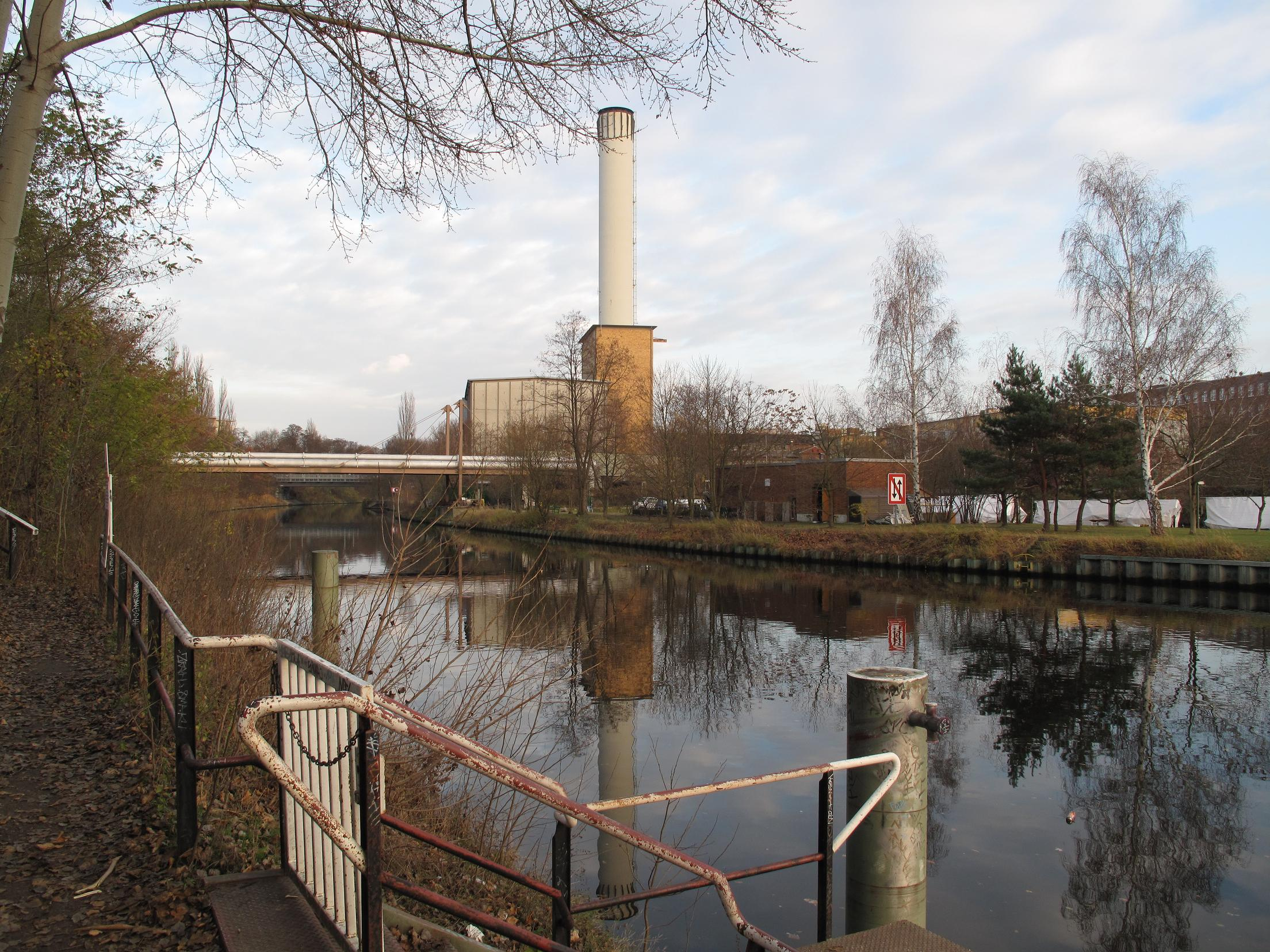 Not named pipe bridge in Berlin-Lichterfelde crossing the Teltowkanal (canal) at the former inland port Steglitz.